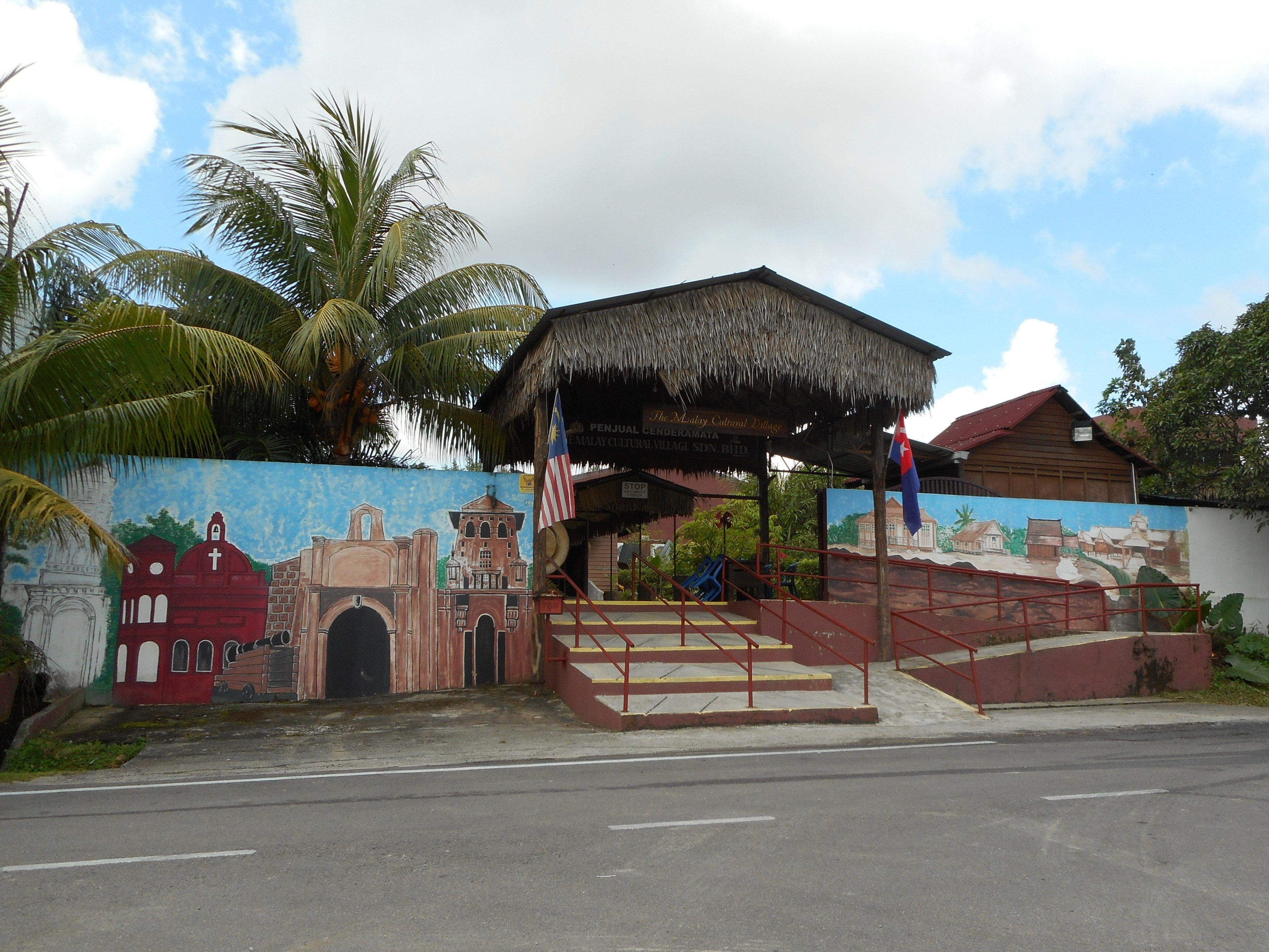 The Malay Cultural Village, Larkin, Johor Bahru, Johor, Malaysia